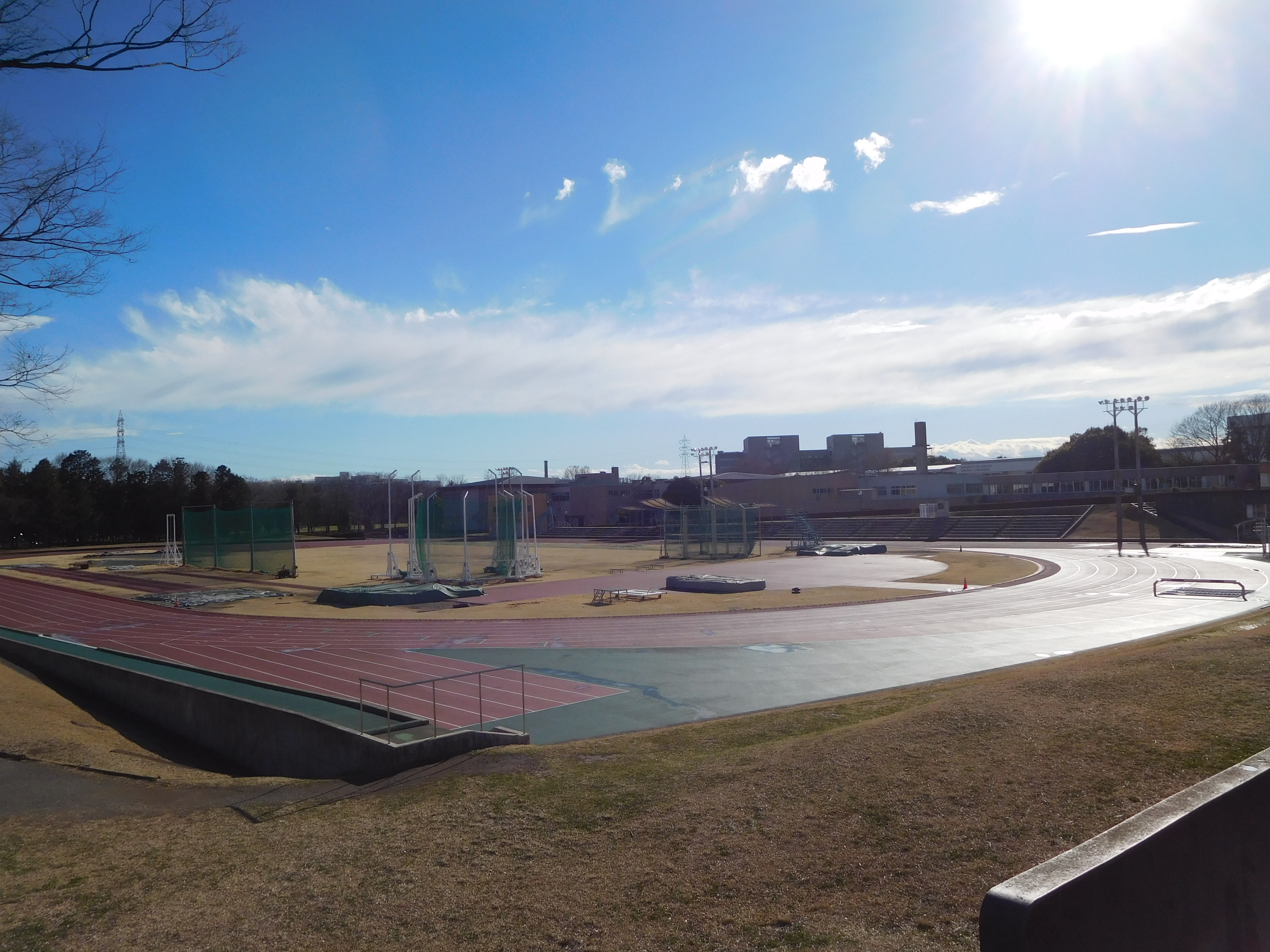 This is Athletic Field, University of Tsukuba, Ibaraki, Japan.